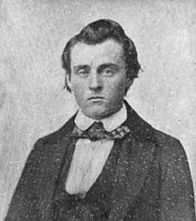 Norman Kittson Norman Wolfred Kittson (6 March 1814 – 10 May 1888) was variously a fur trader, steamboat-line operator, and railway entrepreneur.